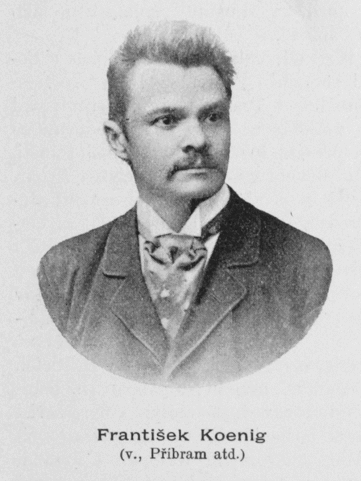 Portrait of František König (1853-??), Czech politician.